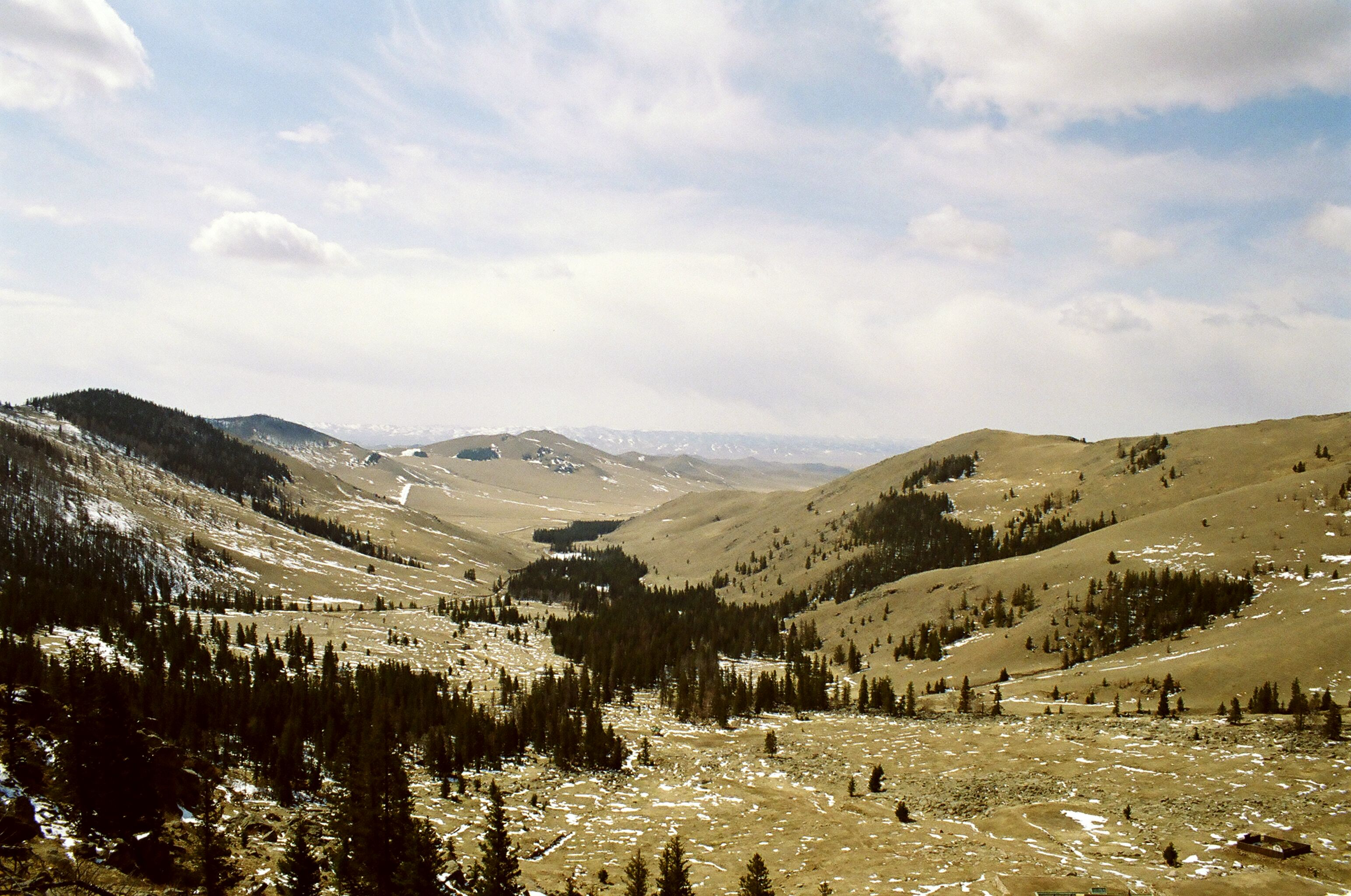 Picea obovata forest, Bogdkhan Uul Strictly Protected Area, Mongolia, near Manzushir Monastery (see mountains in the background of File:Manzushir.jpg for comparison)